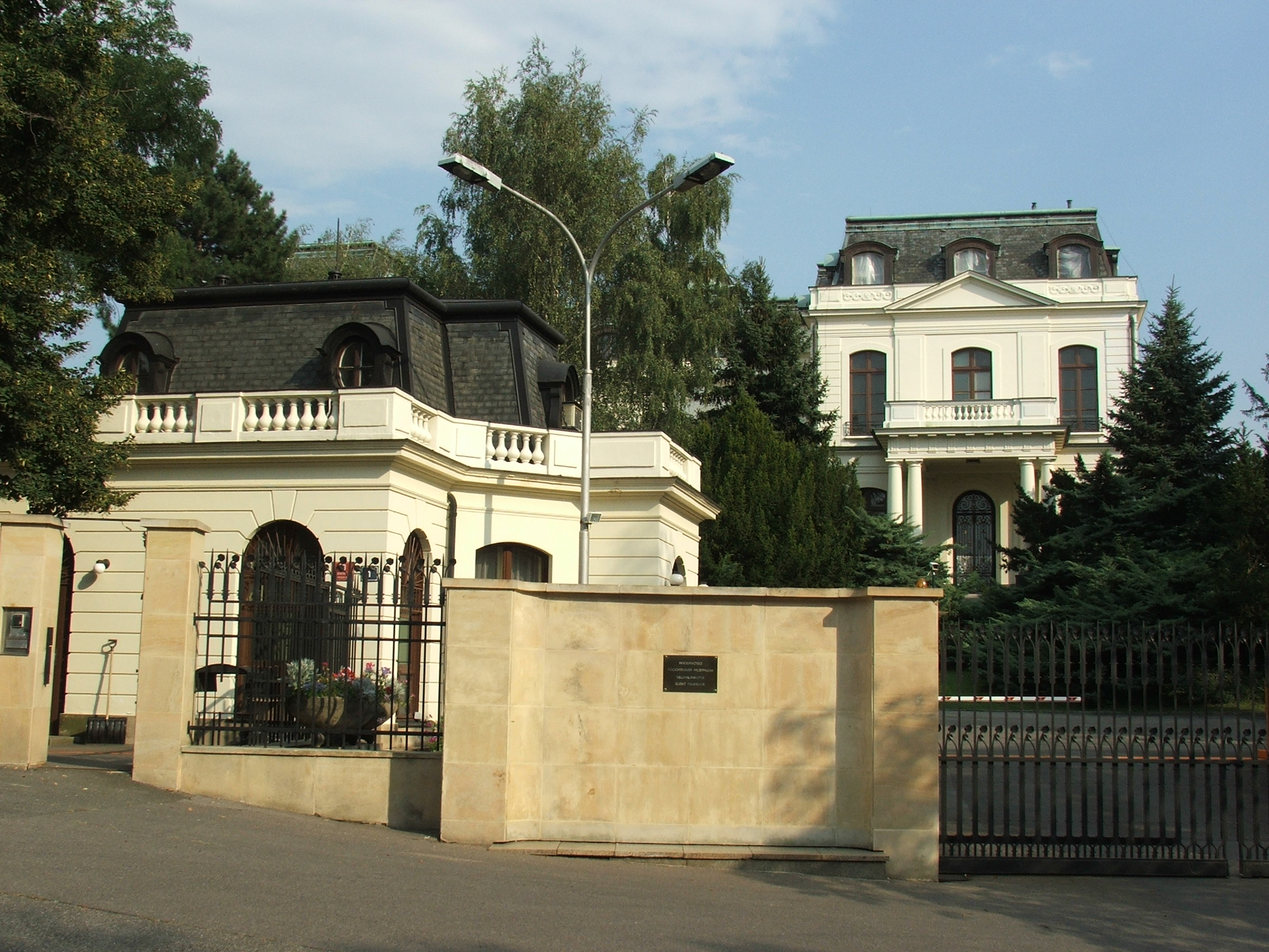 Embassy of Russian Federation in Prague, Czechia. One of two main entrances to the huge complex of Russian embassy in Prague, formerly as Soviet embassy of course.